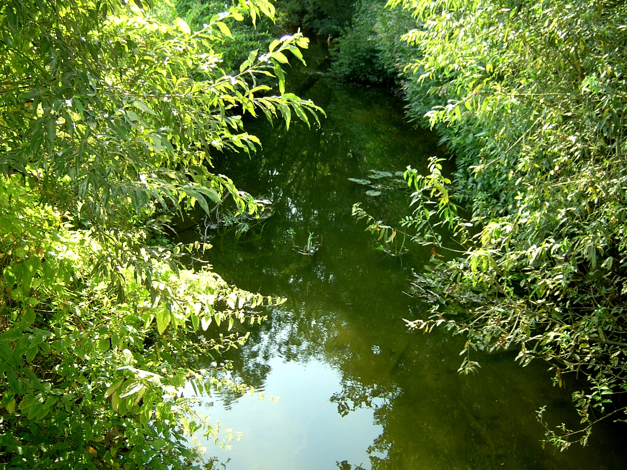 Town of Bünde, District of Herford, North Rhine-Westphalia, Germany: The "Neue Else" near Bünde